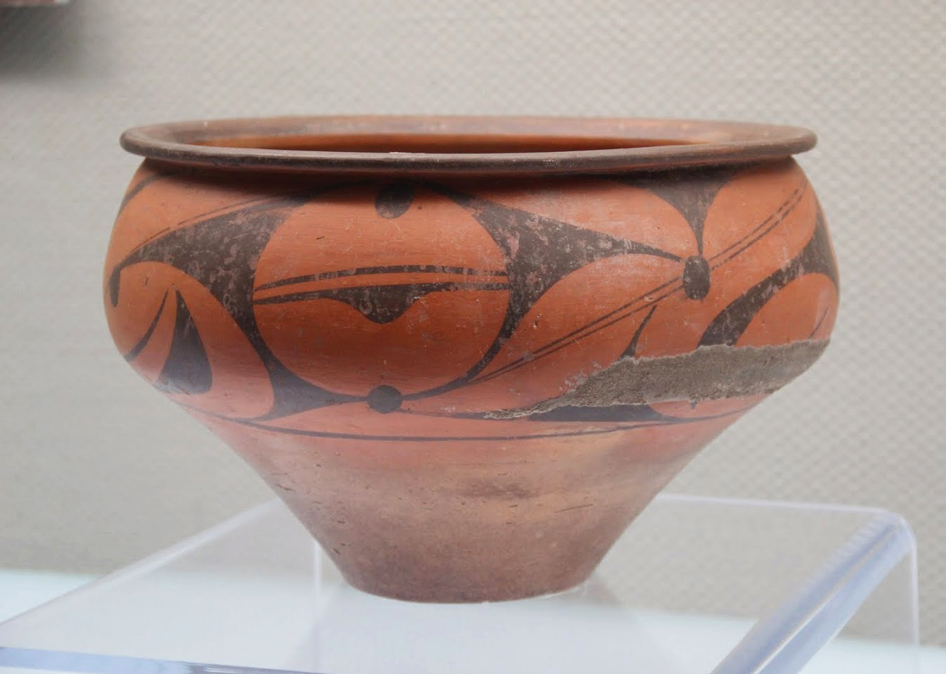 Large basin. Yangshao, Miaodigou culture, ca. 4000 BC. Shanxi Prov Museum, Taiyuan.